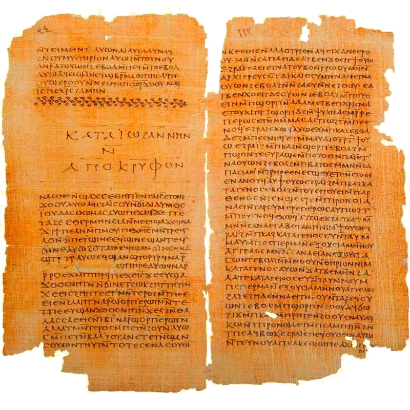 Gospel of Thomas and The Secret Book of John ( Apocryphon of John), Codex II The Nag Hammadi manuscripts. Early Christian Gnostic texts.